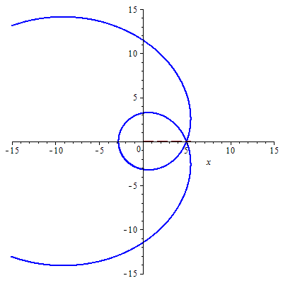 Example of generalized conic in the sense in which the term was used by Tom M. Apostol and Mamikon A. Mnatsakanian in their study of curves drawn on the surfaces of right circular cones. Parameter values: r_0=5, lambda=0.8, k=0.5